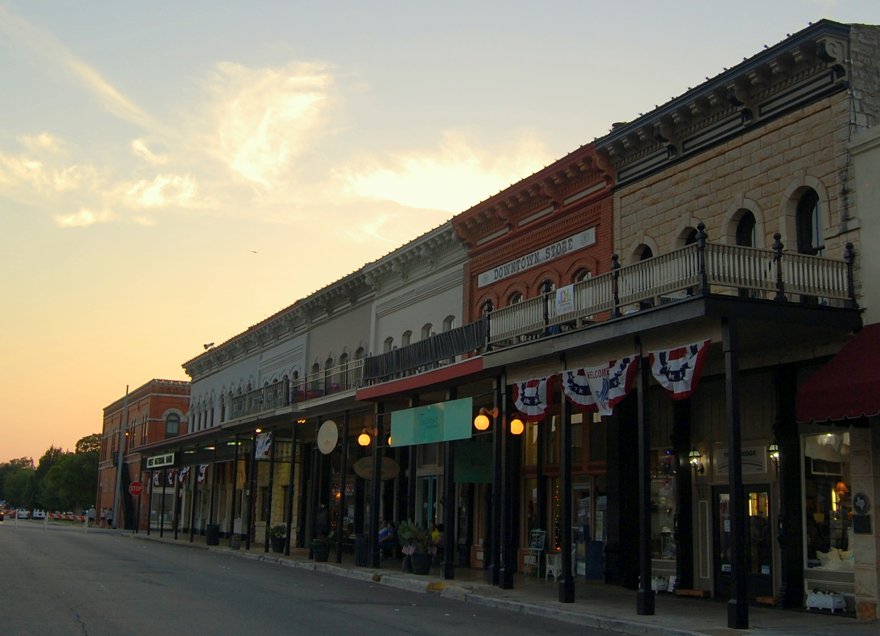 Stores aligning the town square of Granbury, Texas at sunset